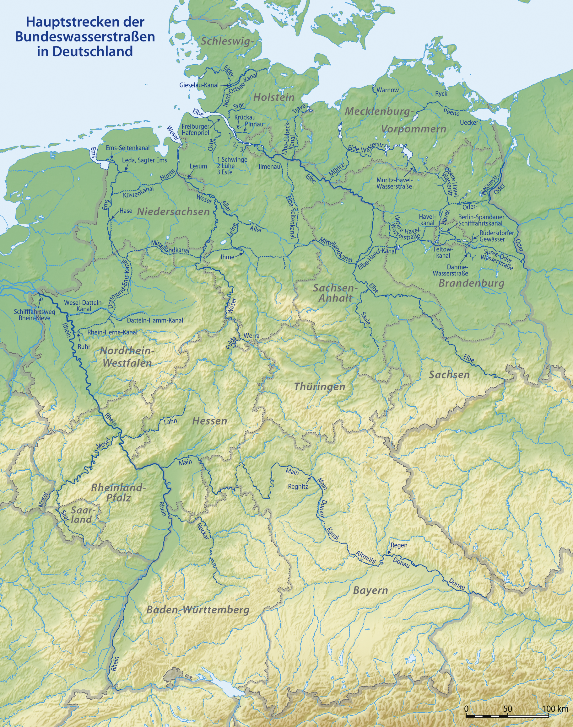 Map of the main Bundeswasserstraßen of Germany